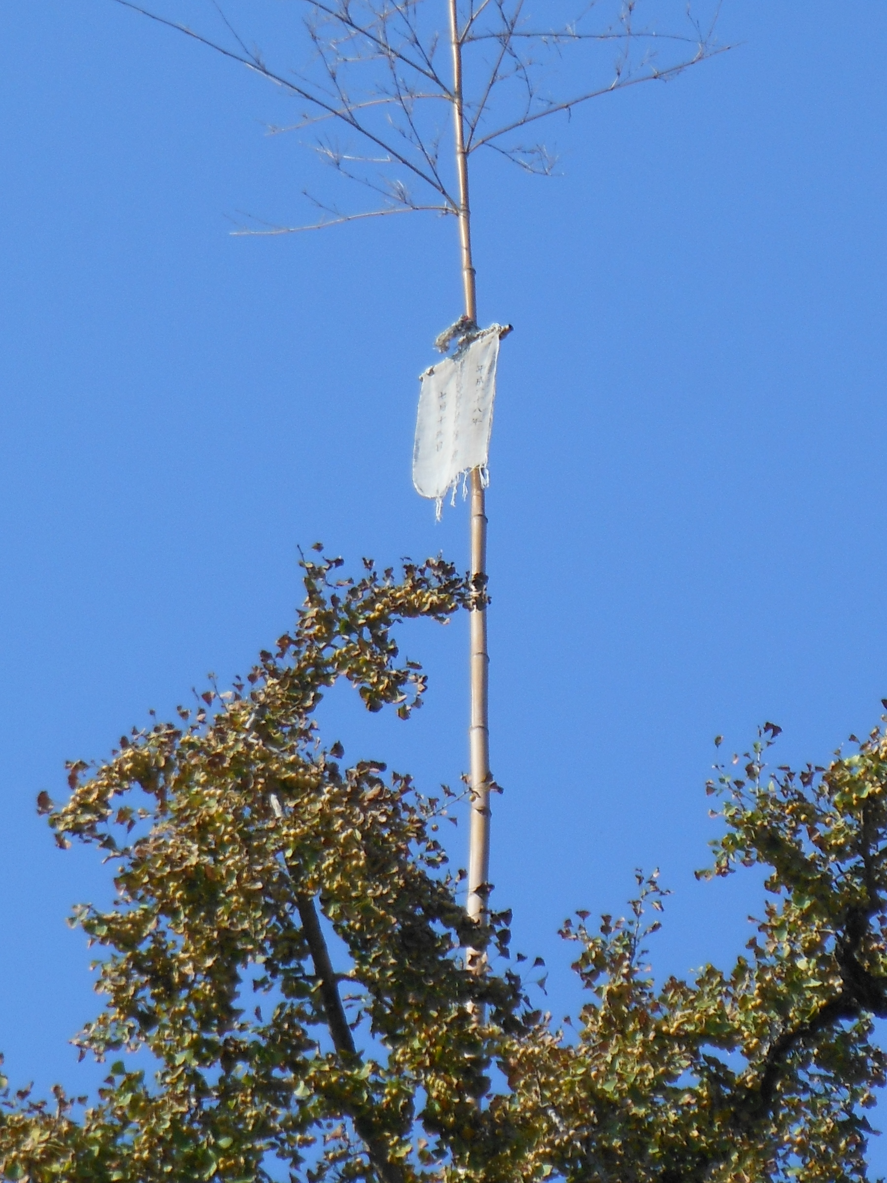 A flag uses religious fortune event, at Ayabe Hachiman Shrine.